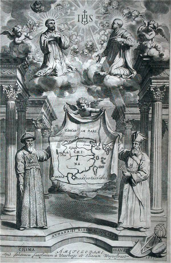 Frontispiece for Athanasius Kircher's 1667 China Illustrated, published at Amsterdam by Elisée or Elizaeus Weyerstraet and Jan Janszoon van Waesberghe, depicting Adam Schall, an angel, and Matteo Ricci displaying a map of China below SS Francis Xavier and Ignatius Loyola venerating an IHS representing Jesus Christ surrounded by angels. Note the mandarin square on Schall's robe.